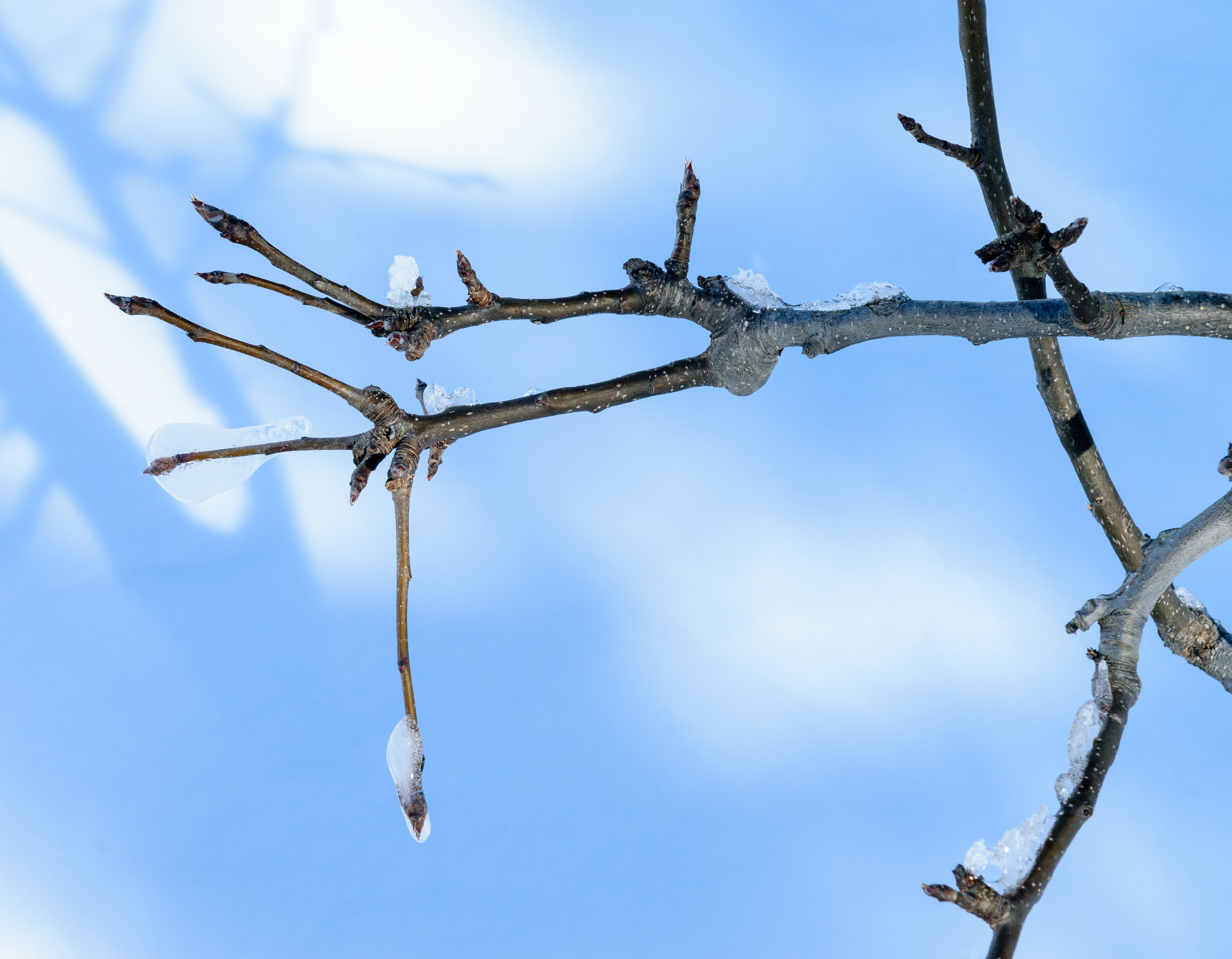 Pyrus pyrifolia, Asian Pear, Shinko cultivar, two days after the snow stopped falling in the January 2018 North American blizzard, in Virginia Beach, Virginia.